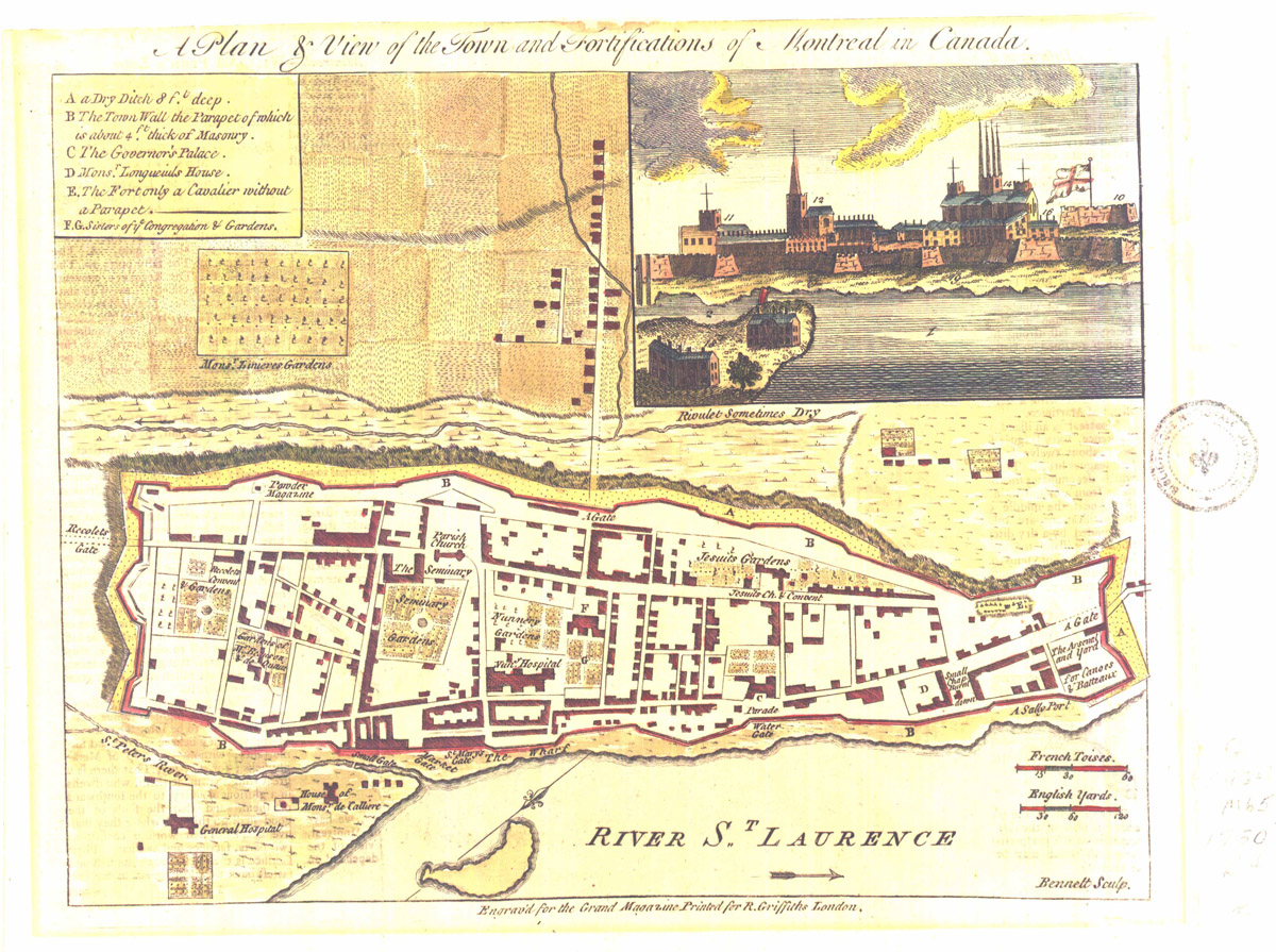 1760 Montreal and its surrounding walls, Bennett